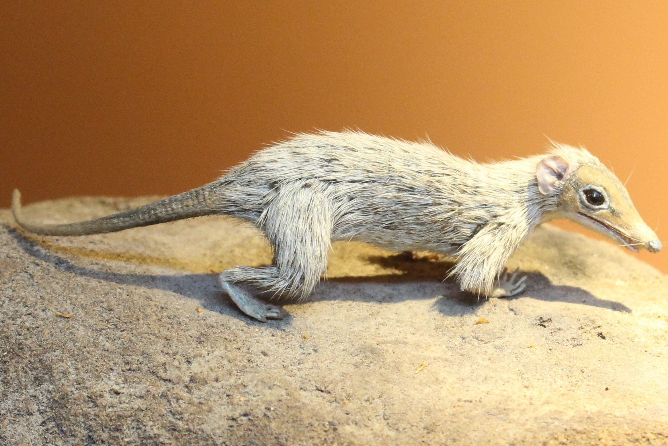 Megazostrodon model at the Natural History Museum in London, England.